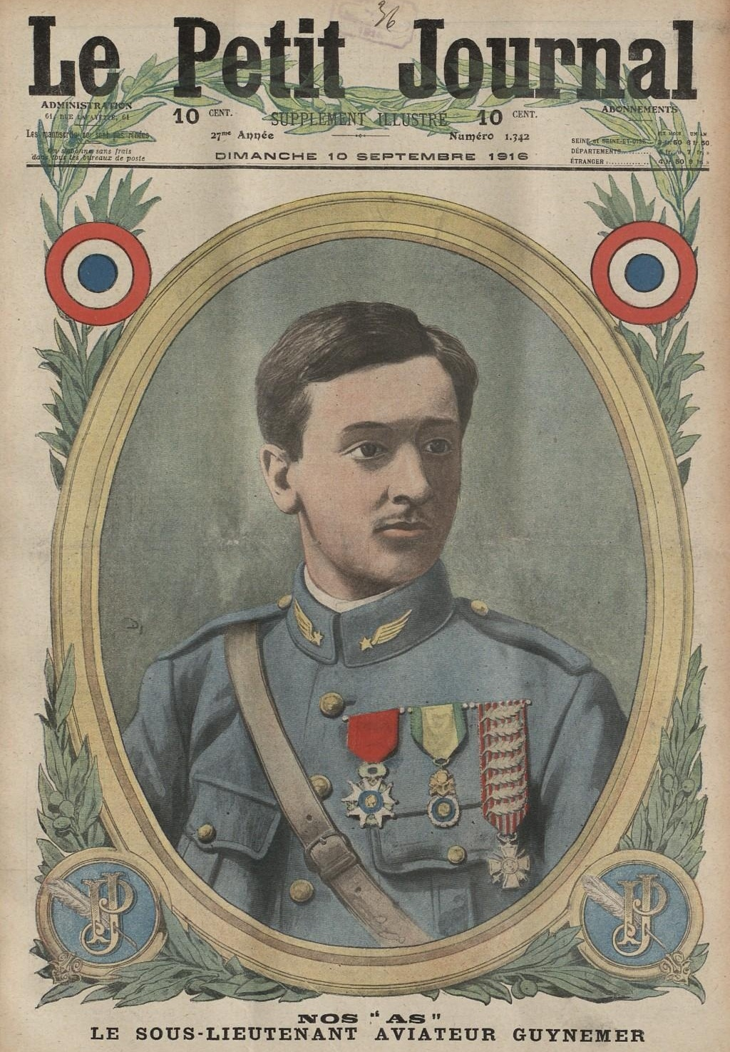 Fighter pilot Georges Guynemer in 1916 (53 wins).